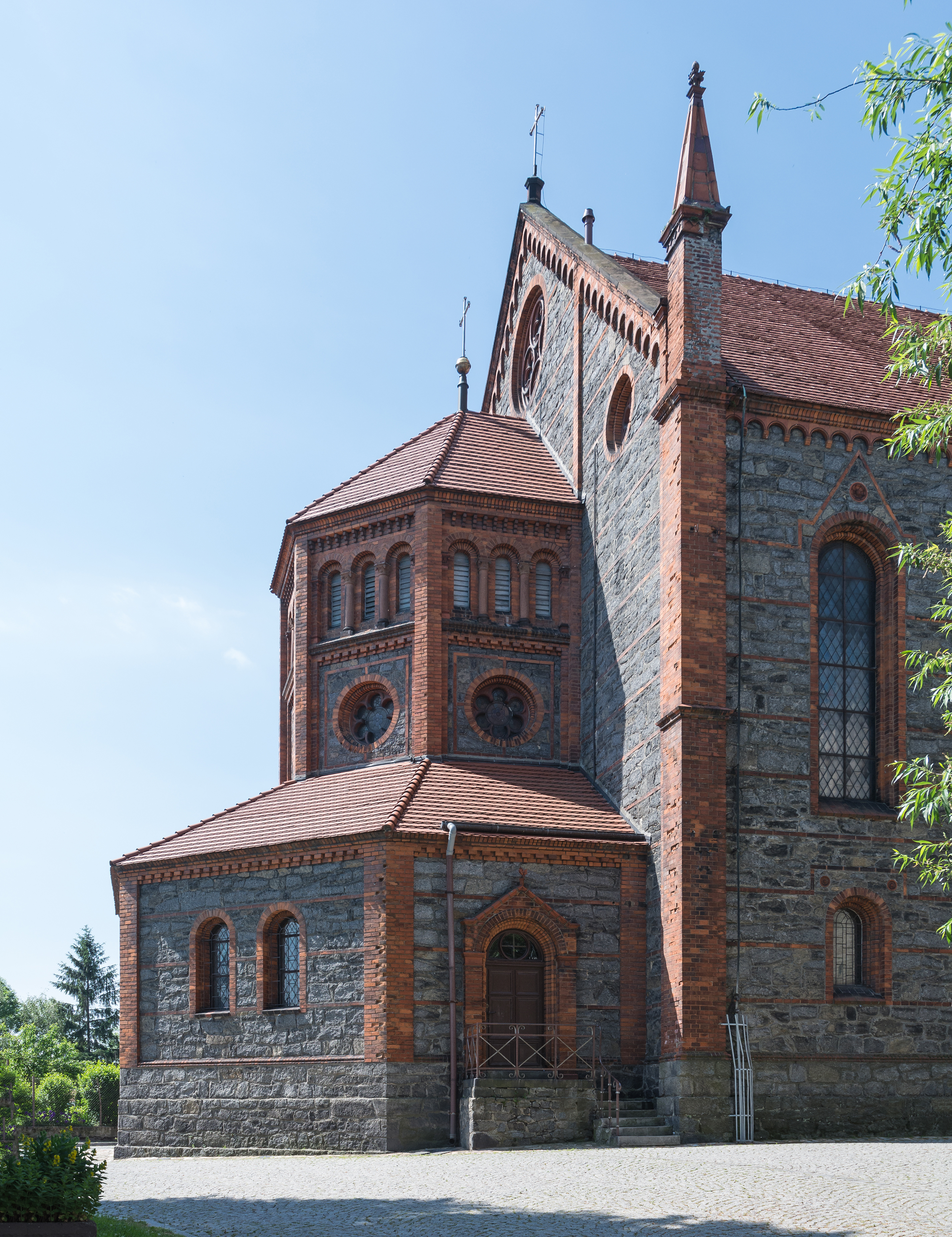 Church of Immaculate Conception Of Blessed Mary in Niemcza